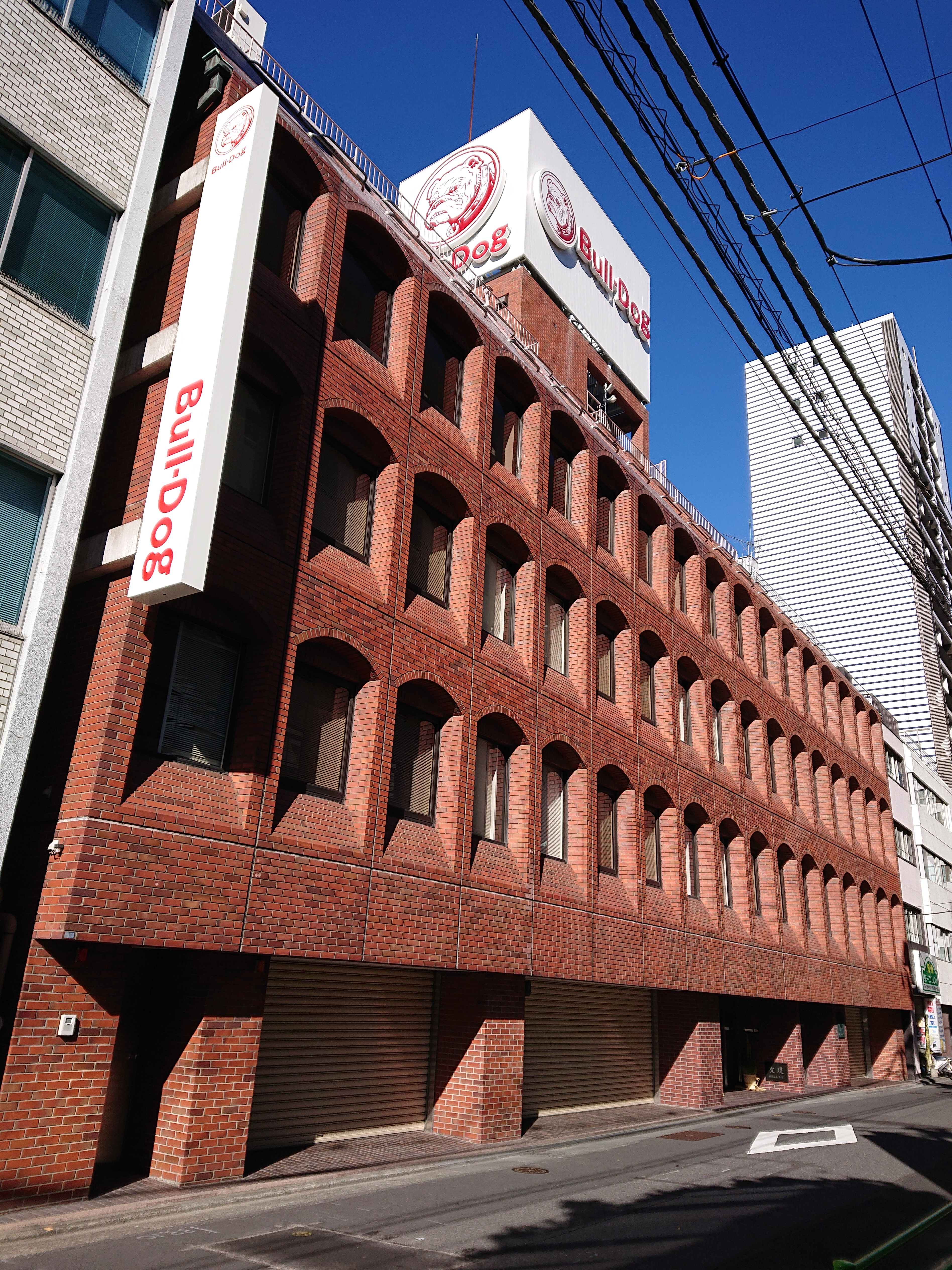 Bull-Dog Sauce (ブルドックソース) headquarters, located at 11-5 Nihonbashi-Kabutocho, Chuo, Tokyo, Japan